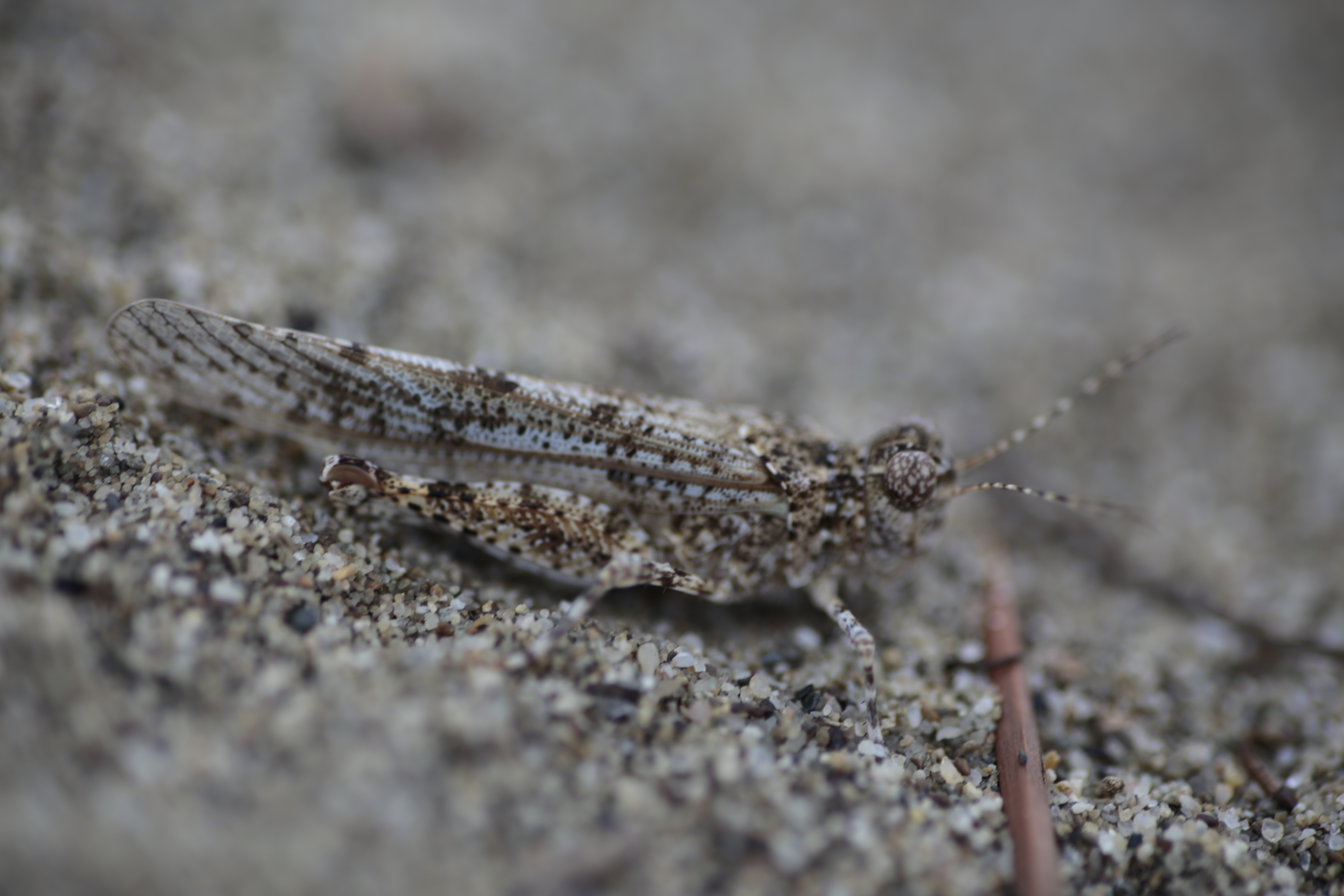 Sphingonotus (Sphingonotus) personatus (Zanon 1926), Grosseto Italy